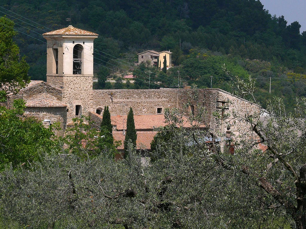 Limigiano, view with S. Michele church